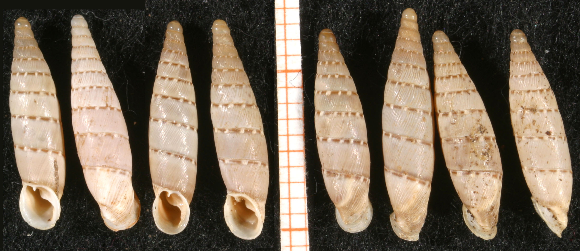 Papillifera papillaris. Scale is in mm. Locality: Malta: Gozo, between Xewkya and Sannat. Date: October 1987.